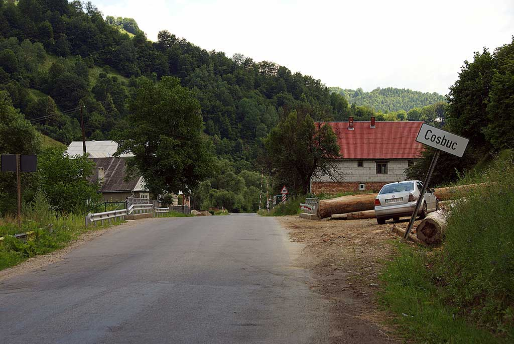 Cosbuc- Entrance from north